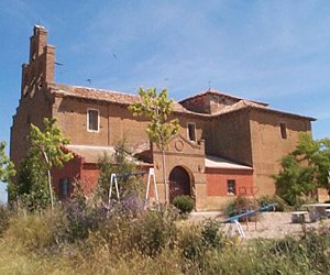 Exterior de la iglesia de San Miguel Arcángel, de Castil de Vela (Palencia)